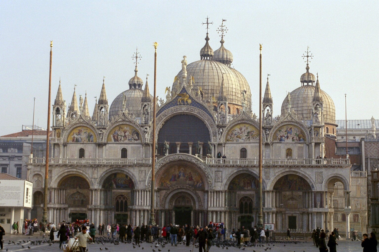 San Marco, 30100 Venice, Italy